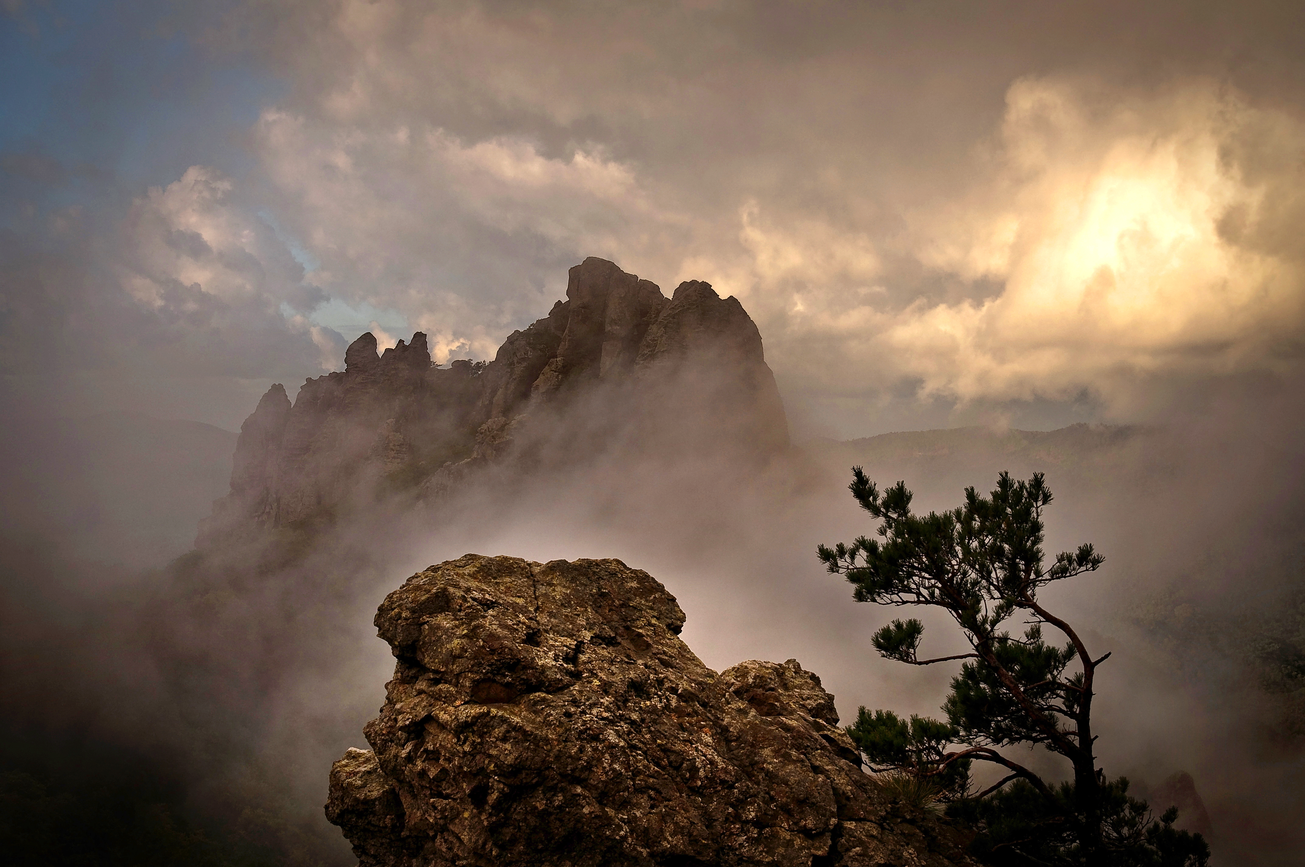 Mount Indyuk in Tuapsinsky District, Russia This image is related to the protected area of Russia number 2320485